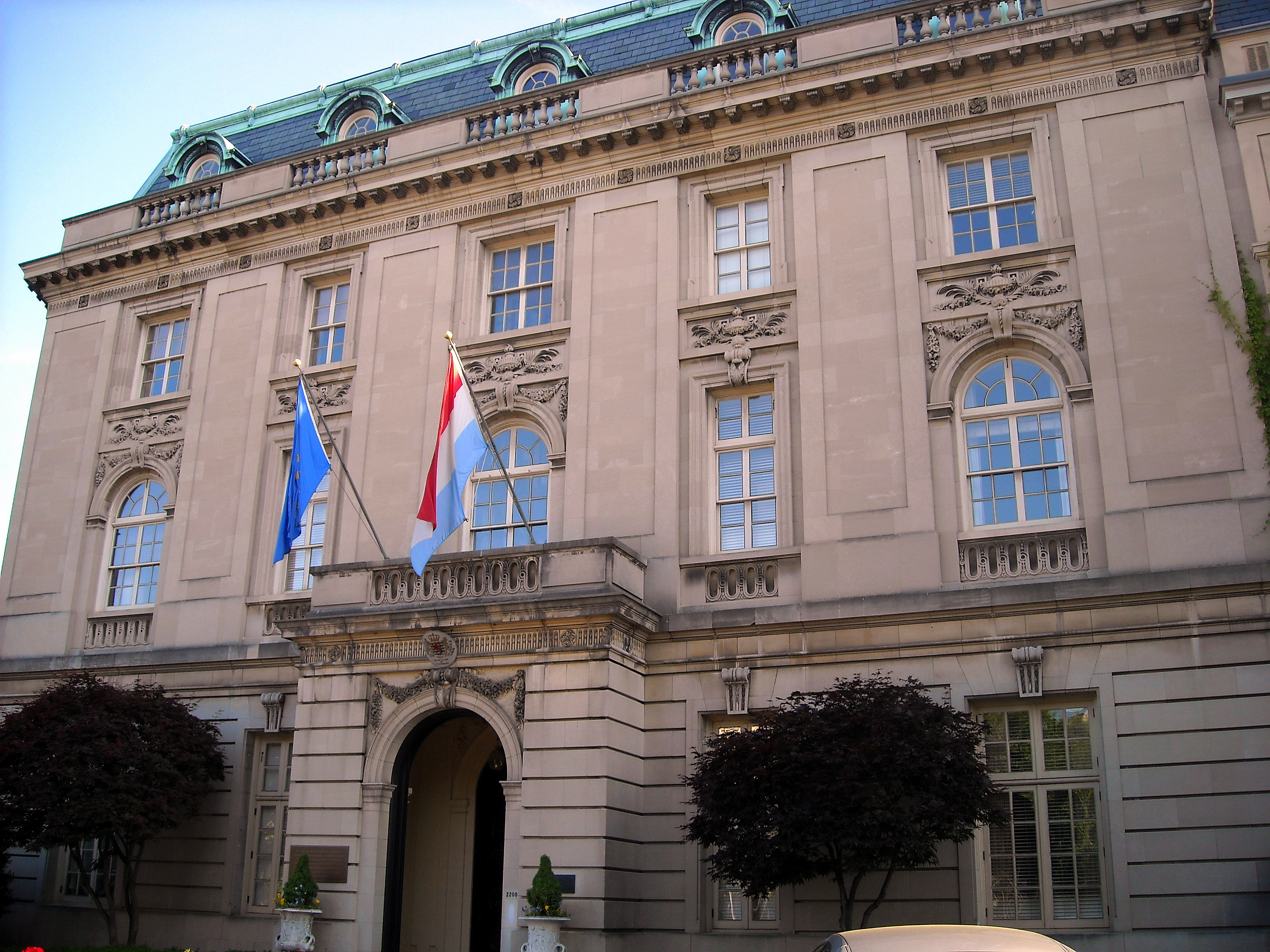 The Embassy of Luxembourg at 2200 Massachusetts Avenue, NW in Washington, D.C. The building is on Embassy Row, between Dupont Circle and Sheridan Circle.